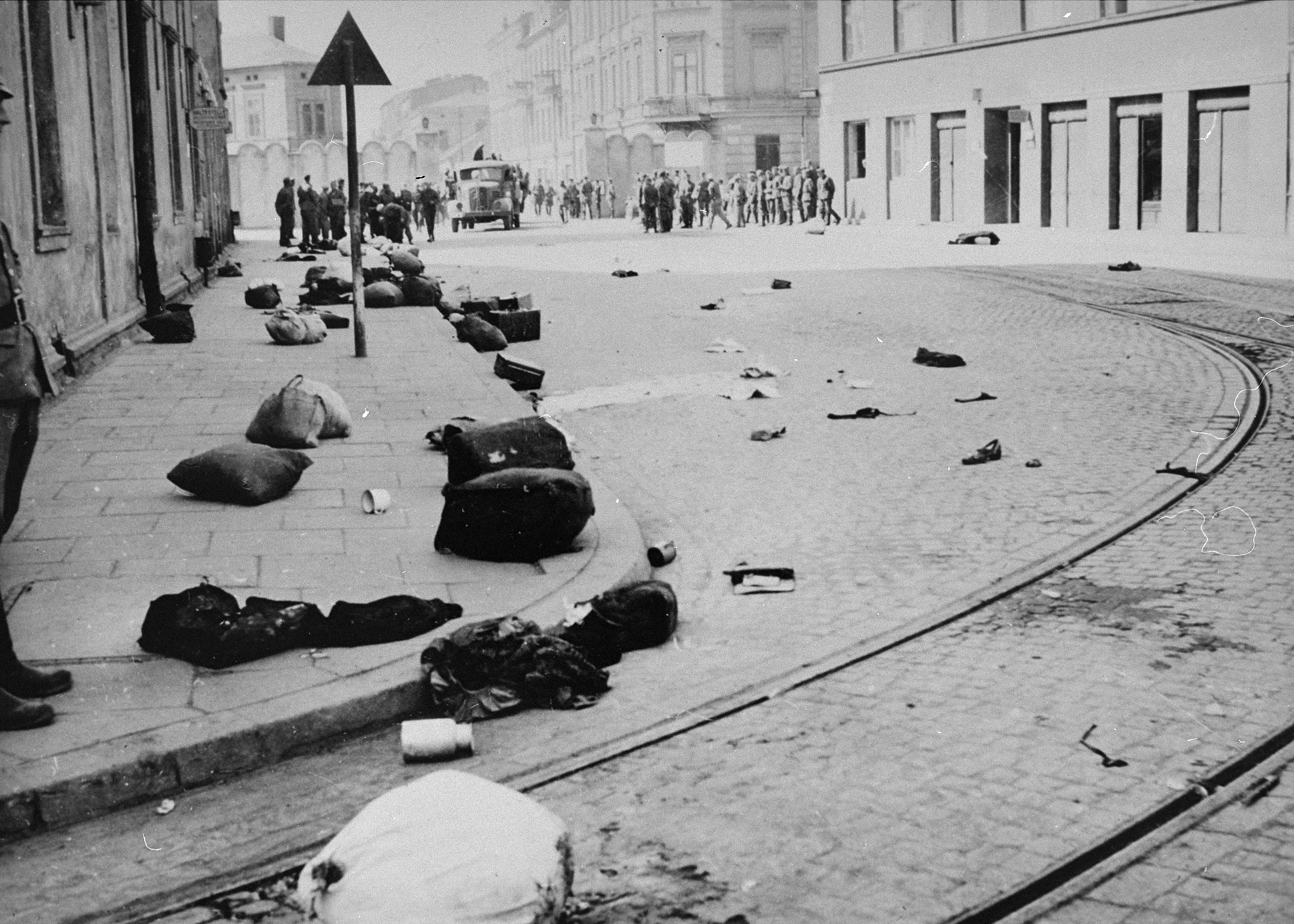 View of a major street in Krakow after the liquidation of the ghetto, which is strewn with the bundles of deported Jews.